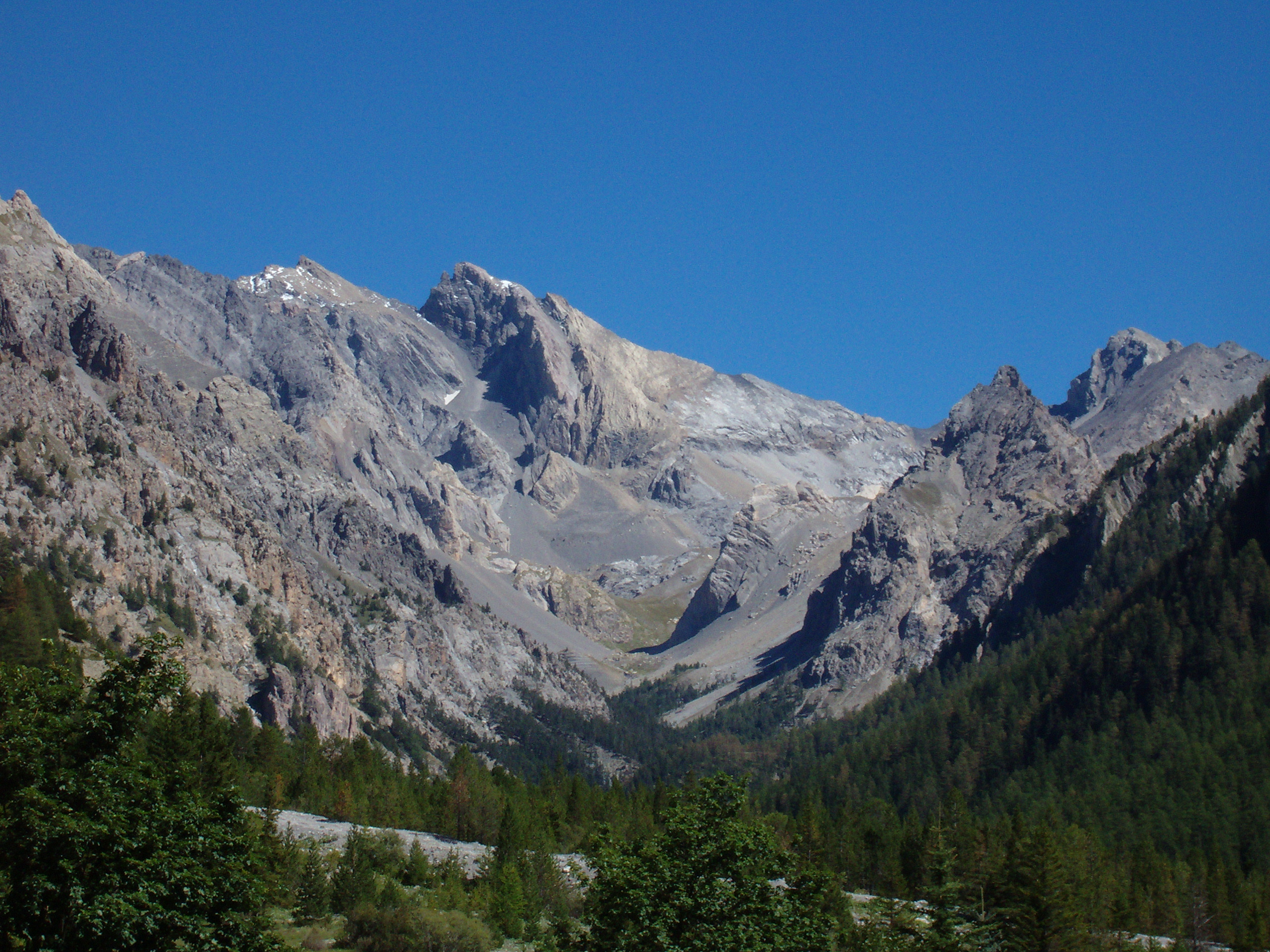 The Font Sancte peaks from Basse Rua d'Escreins